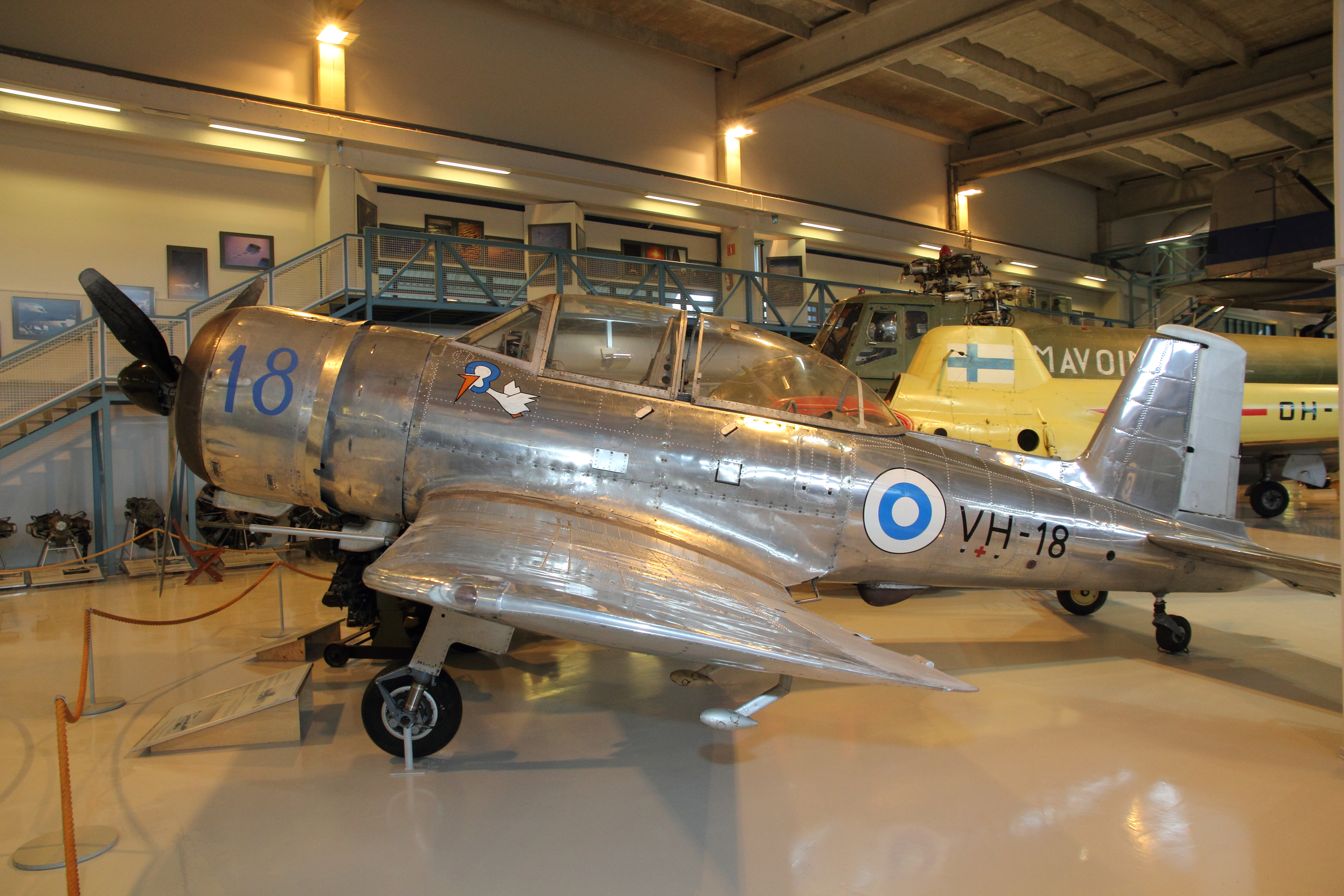 Valmet Vihuri trainer (VH-18) in the Aviation Museum of Central Finland.